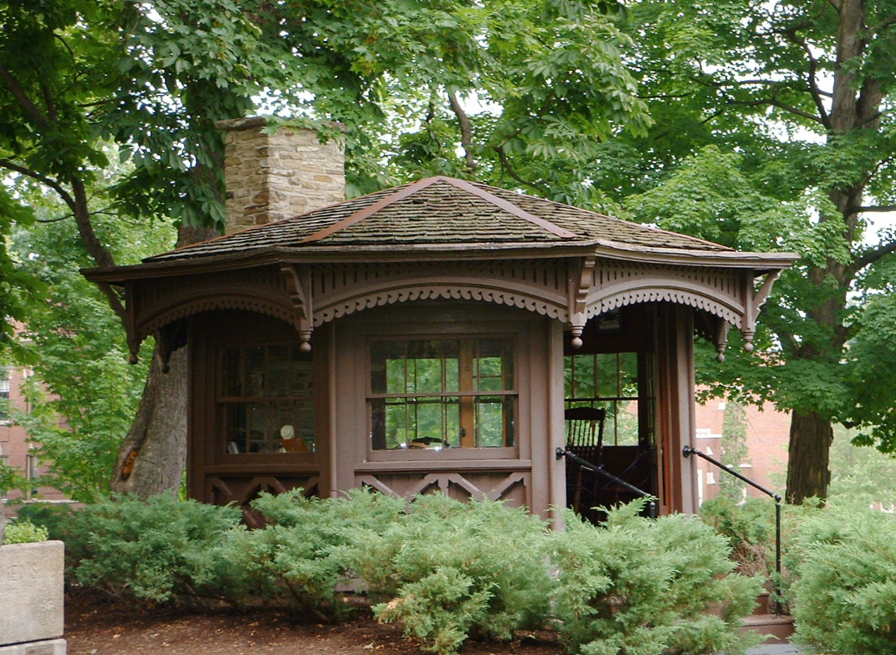 Mark Twain Study, Elmira, NY